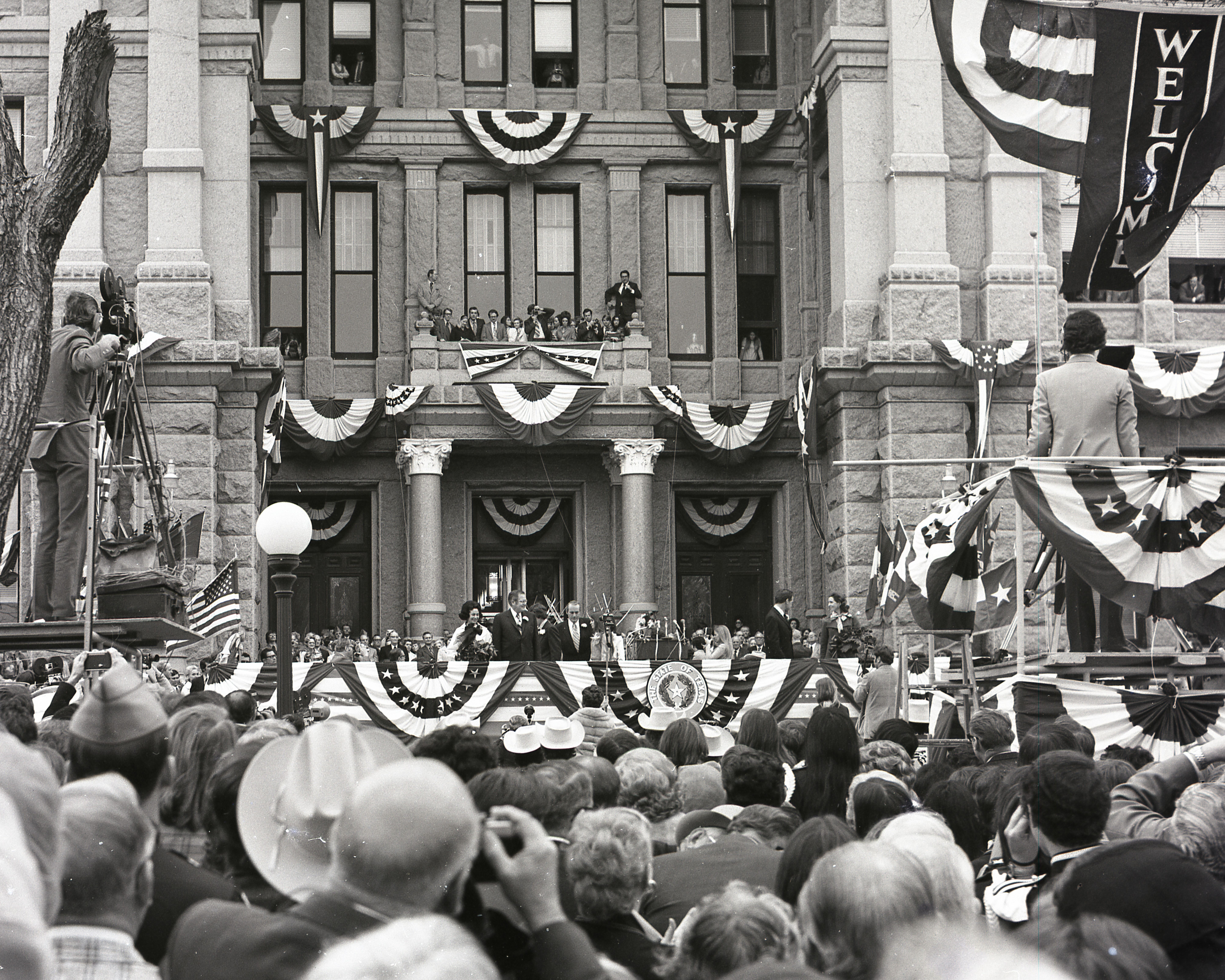 Austin, Texas. Governor Dolph Briscoe Inauguration - January 16, 1973